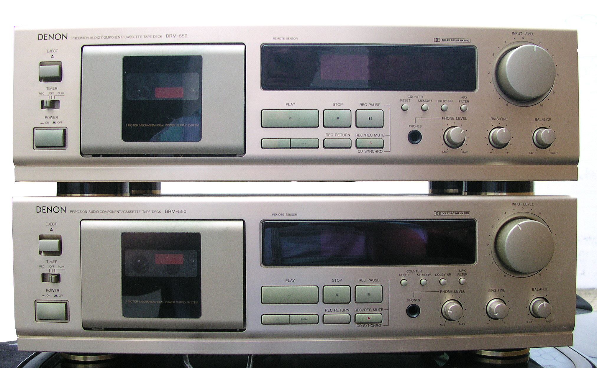 Denon DRM 550 tape deck with timer